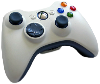 Picture of Xbox 360 wireless controller